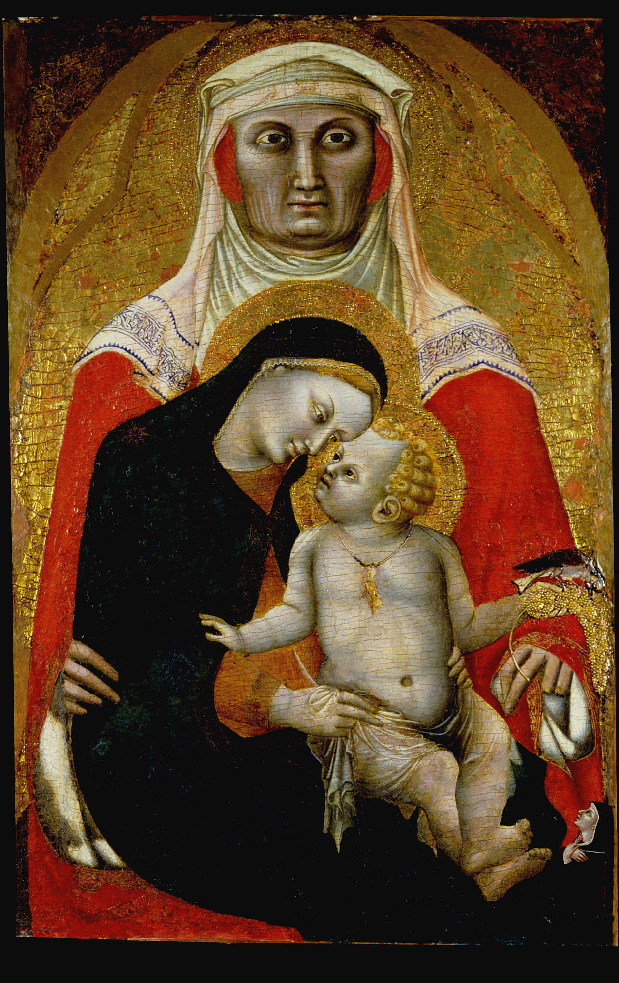 Francesco Traini, Italian, active 1321–1345 Madonna and Child with Saint Anne, 1340–45 Tempera on wood panel transferred to pressed wood panel 84.9 x 56.0 cm. (33 7/16 x 22 1/16 in.) frame: 101.3 x 76.5 x 14.6 cm. (39 7/8 x 30 1/8 x 5 3/4 in.) Bequest of Frank Jewett Mather Jr. y1963-2 Francesco Traini was the most important artist in mid-fourteenth-century Pisa. This panel, formed the center of an altarpiece in a monastery outside the city; related panels are in the Musée des Beaux-Arts, Nancy, and the Nationalmuseum, Stockholm. The Madonna and Child with Saint Anne is an unusual subject for the time; this is one of the first Italian images of Mary’s mother, based on oral traditions compiled in the early thirteenth century in The Golden Legend. Anne, a hieratic, otherworldly figure, protects the intimate embrace of mother and child. To focus attention on key elements in the painting, Traini used pastiglia work, raised designs in gesso (plaster) that are painted or gilded. The goldfinch eating millet grain, symbolic of Jesus’s Passion, and the Child’s coral necklace, intended to ward off evil, are executed in this technique. The small donor figure, a Benedictine nun, was apparently added later, since she is painted over Saint Anne’s robe.